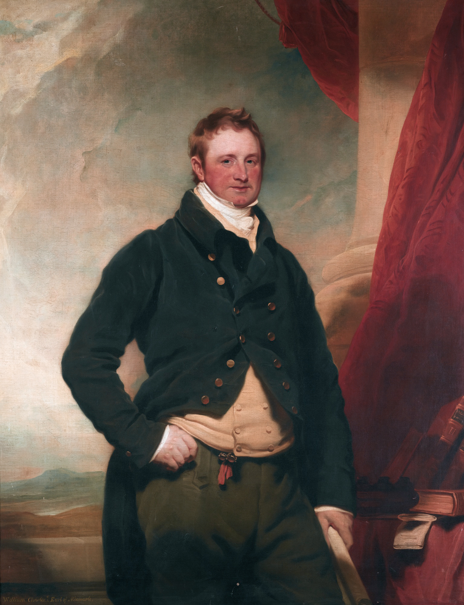 William Keppel, 4th earl of Albemarle (1772-1849) oil on canvas 143 x 111.9 cm inscribed b.l.: William.Charles. 4th Earl of Albemarle.